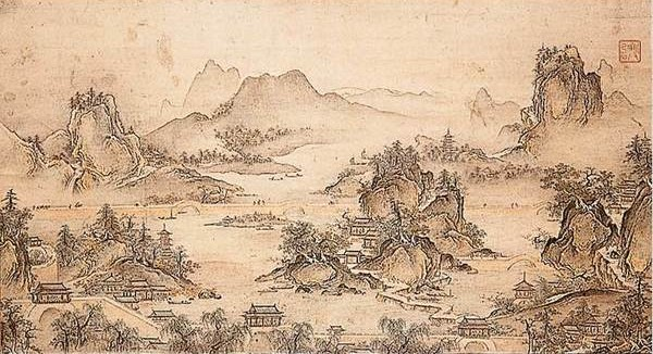 Painting of a landscape